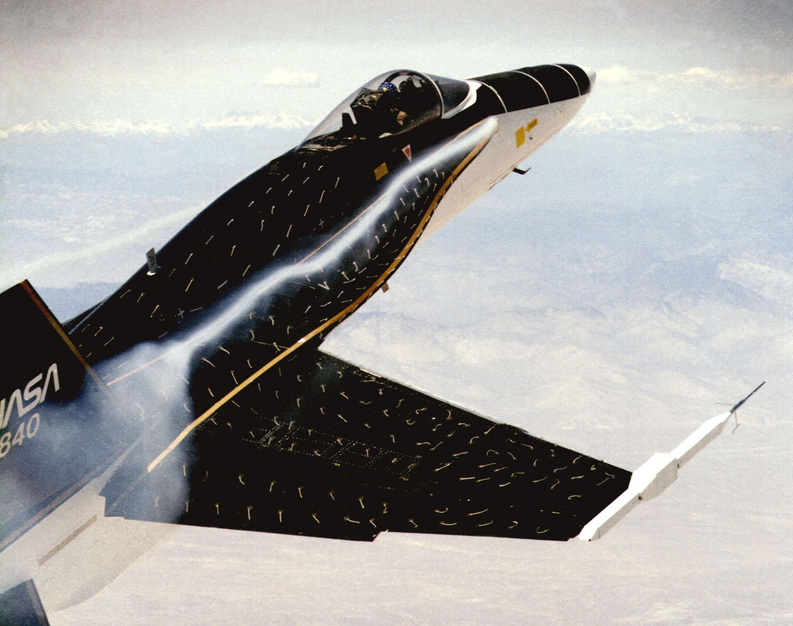 Buffeting of the fin caused by the breakdown of the vortex from the leading edge extension on the NASA HARV F/A-18 wing.